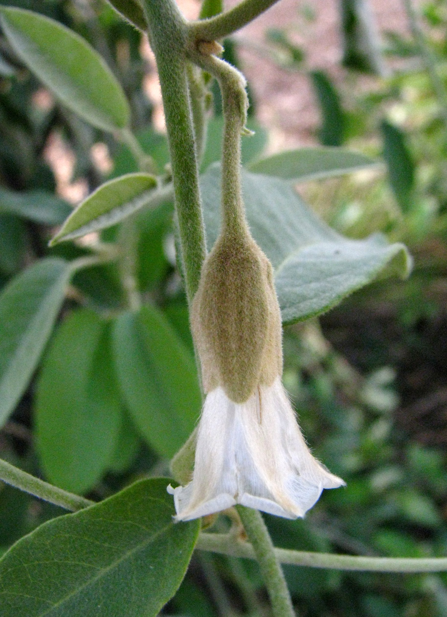 Hawaii lady's nightcap, Menzies' nightcap (no known Hawaiian name) Convolvulaceae Endemic to the Hawaiian Islands Endangered Oʻahu (Cultivated)